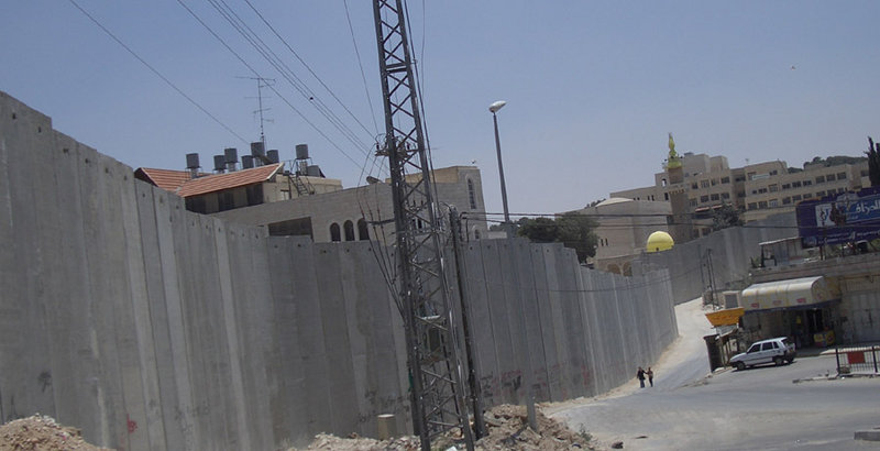 Israeli separation barrier at Abu Dis, June 2004. This picture shows a portion of the barrier being built by Israel in the West Bank. This part is in Abu Dis, close to the eastern part of Jerusalem. The photo was taken on the Jerusalem side of the wall, facing south. The local residents on both sides of the barrier at this point are predominantly Arabs.